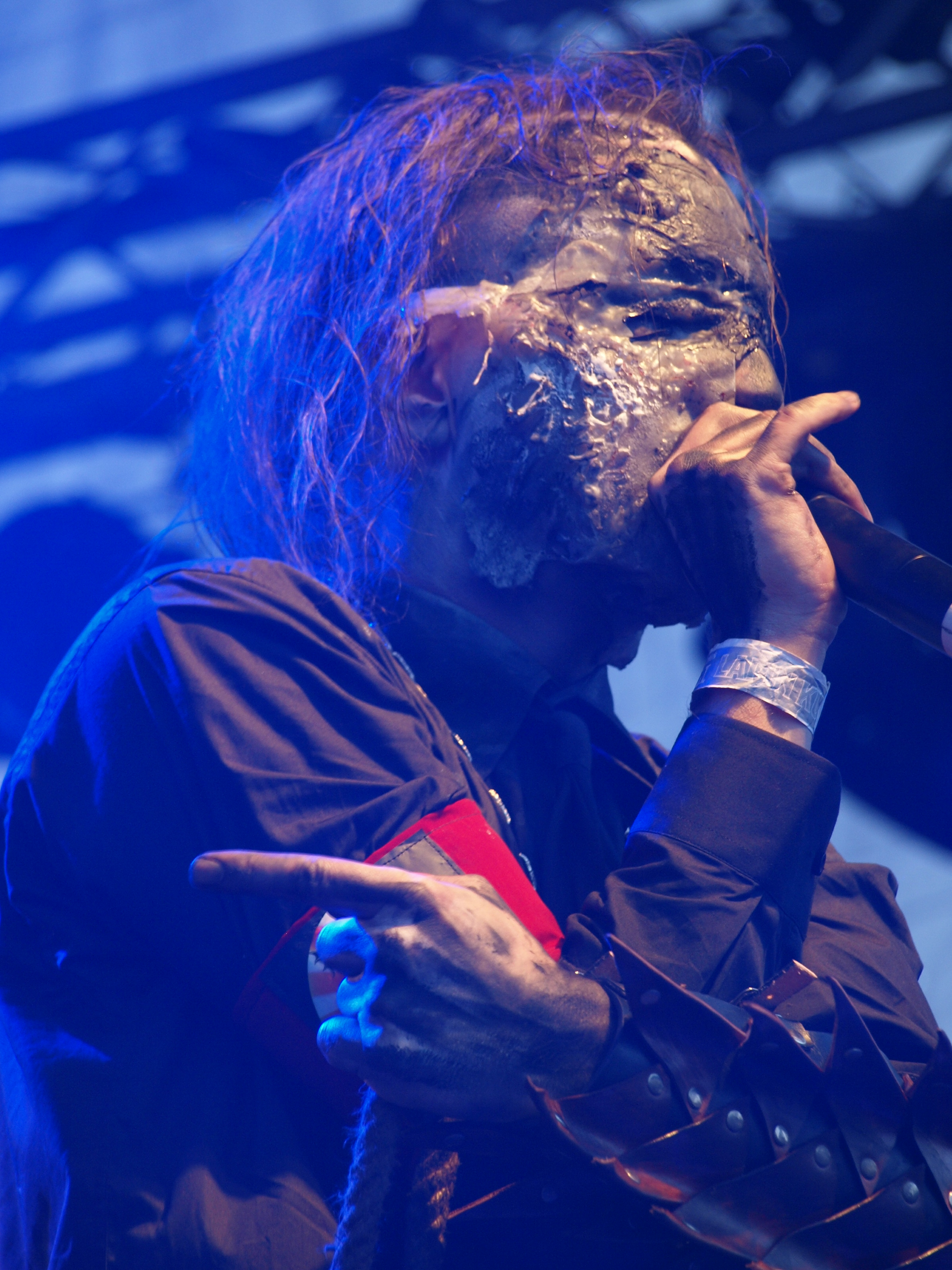 Norwegian black metal band Mayhem live at Jalometalli 2008 in Oulu.